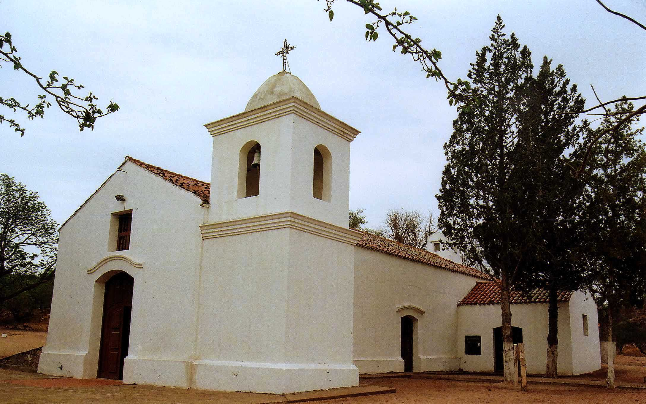 Iglesia de Sumampa Viejo, Santiago del Estero,Argentina